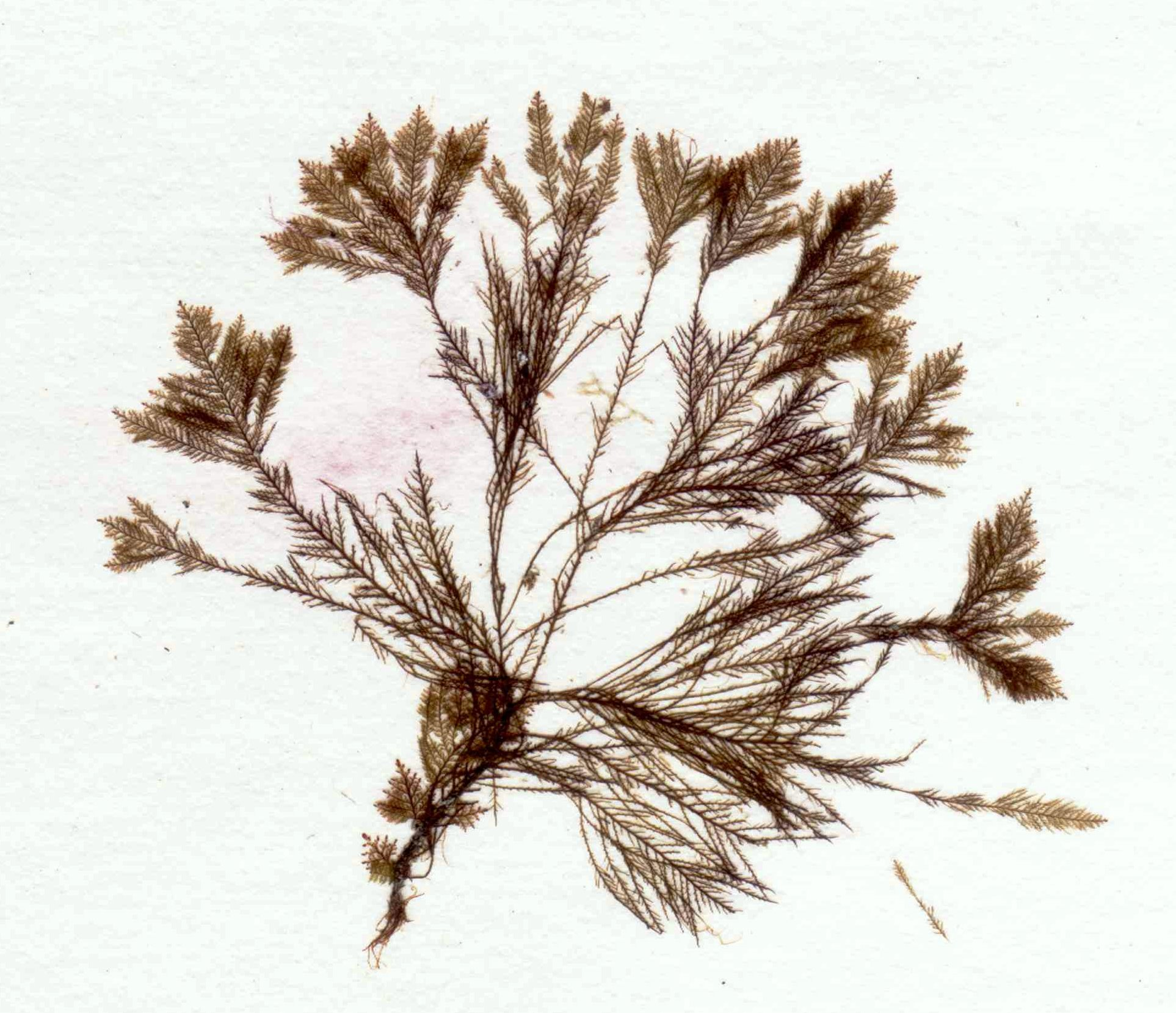 Halopteris filicina, herbarium item (personnal collection / full size = 2 cm), collected in july 1982 near Villefranche-sur-mer (France), scanned on 2010-02-01